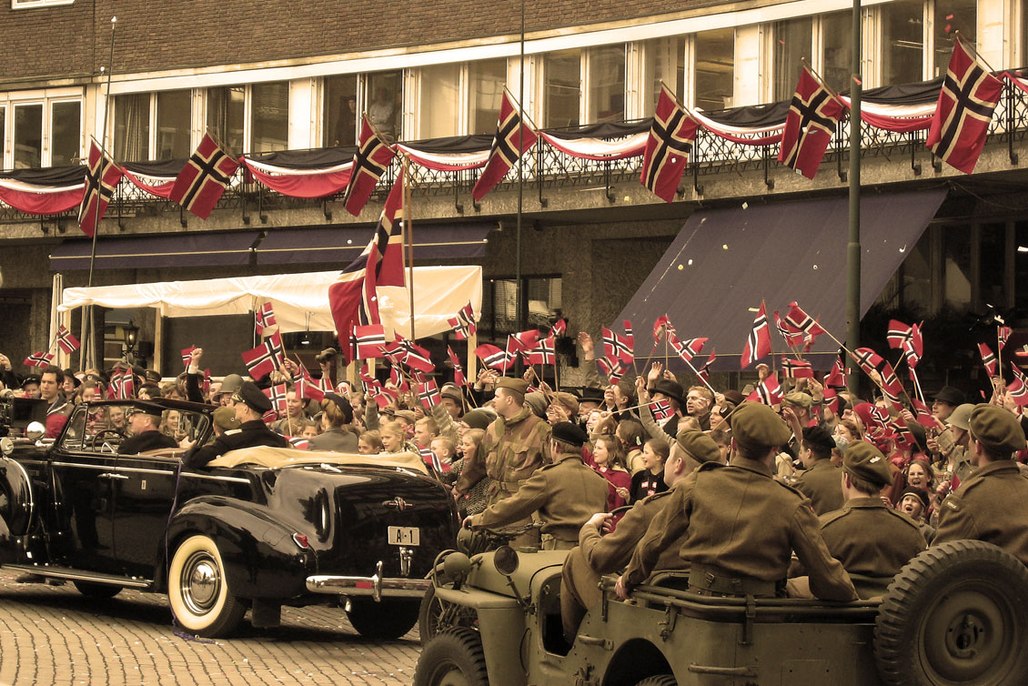 From the making of the Norwegian movie Max Manus in 2008. The movie tells the story of Max Manus from the Norwegian resistant movement during the German occupation of Norway in World War II. The scene shown recapture the event when king Haakon returns home to Oslo and Norway after the war, riding in his car (A-1) together with his son, crown prince Olav. The newly freed people of Oslo celebrates the victory and the royal family with flags and cheering.